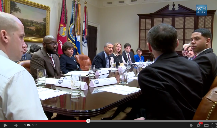 Screenshot at 1:19 of video of U.S President Obama with YouTube video content creators